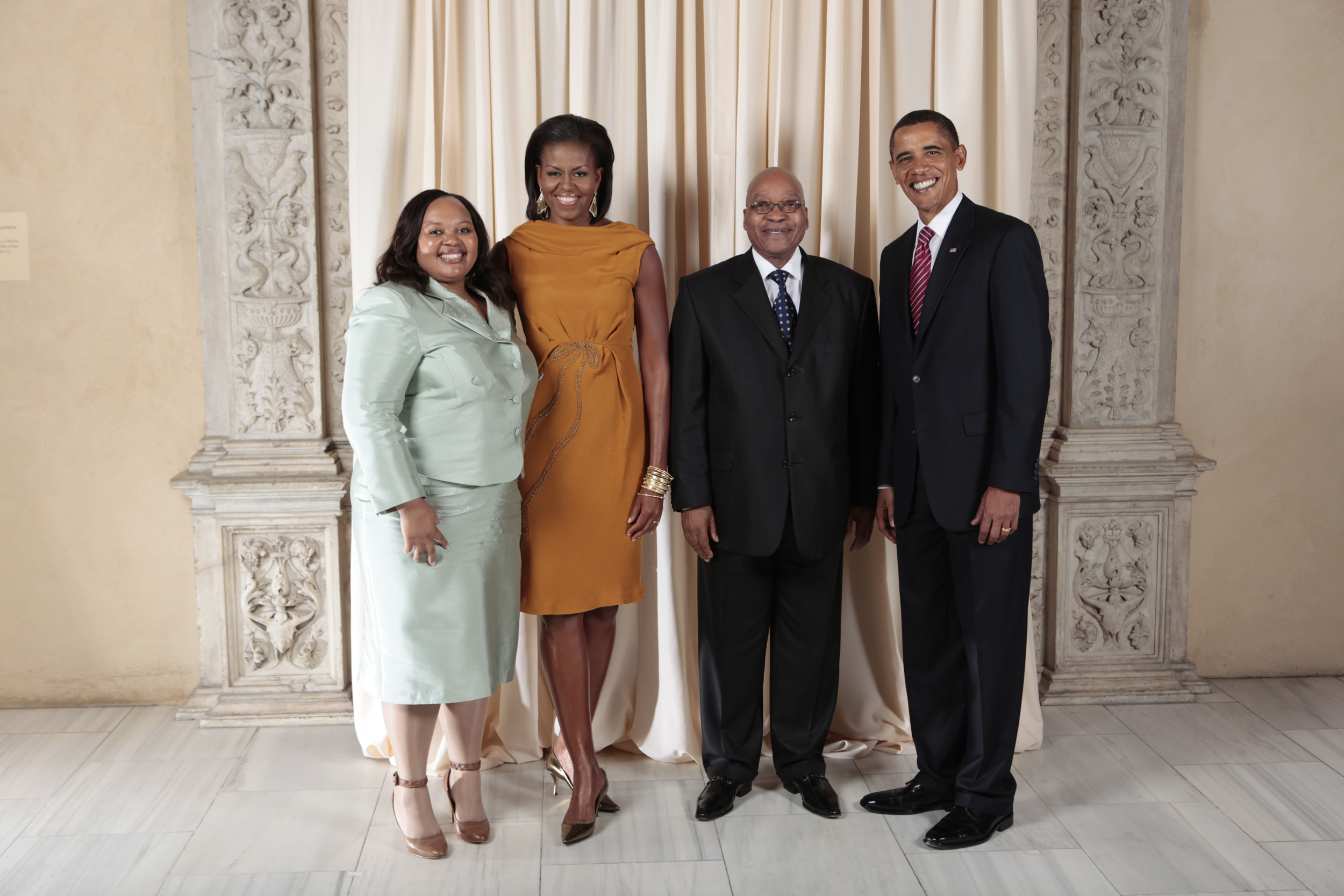 President Barack Obama and First Lady Michelle Obama pose for a photo during a reception in 2009 at the Metropolitan Museum in New York with Jacob Zuma, President of the Republic of South Africa, and one of his wives.